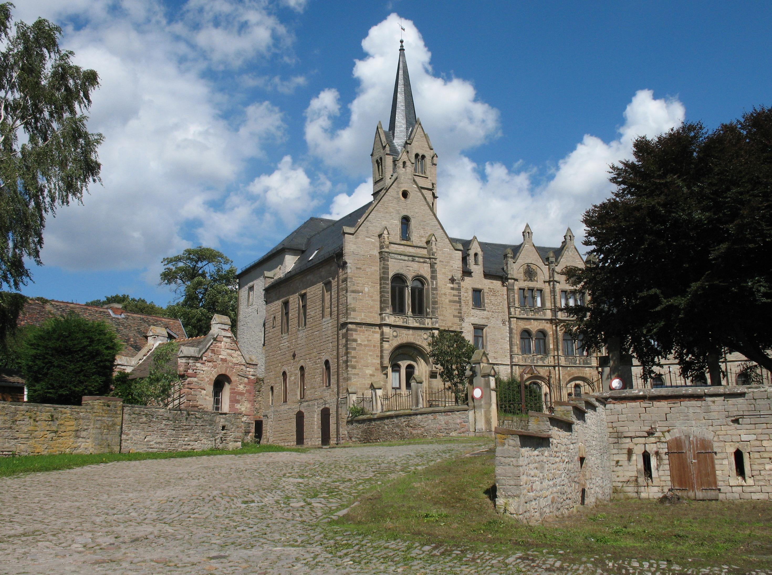 Castle in Allstedt-Beyernaumburg in Saxony-Anhalt, Germany